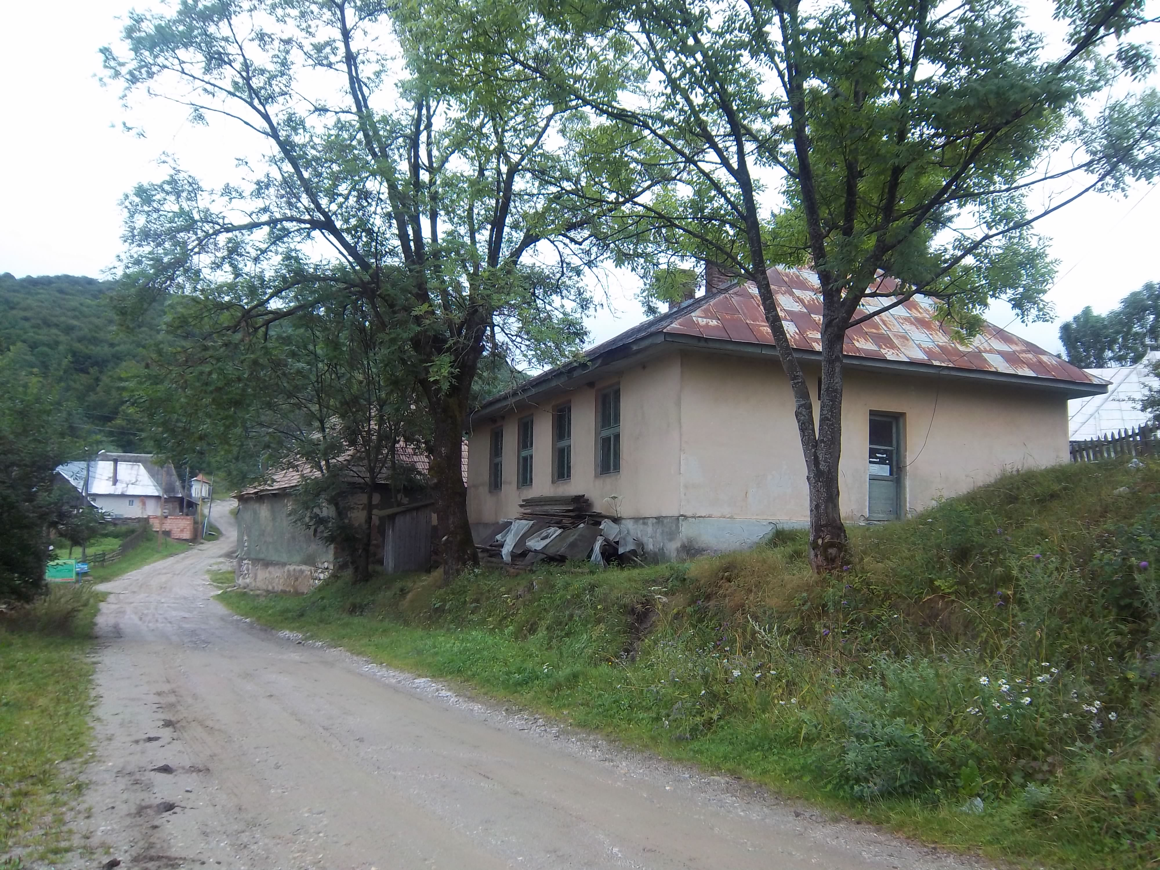 Brădești